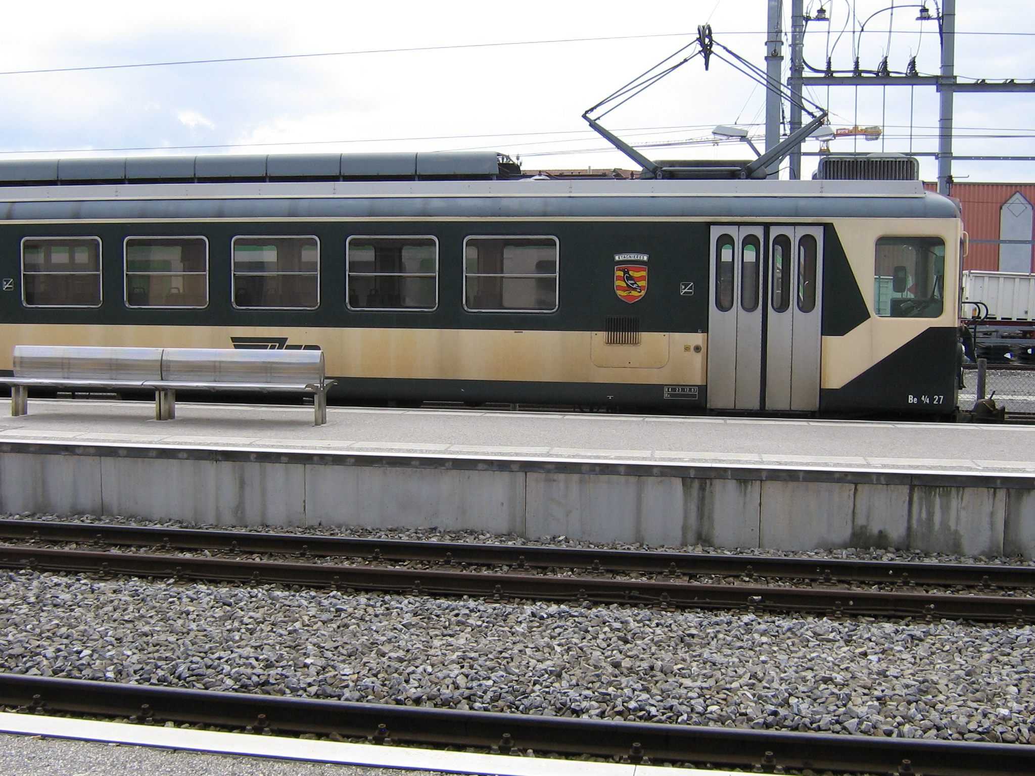 Motor coach Be 4/4 27 Étagnières on track 3 at Échallens station